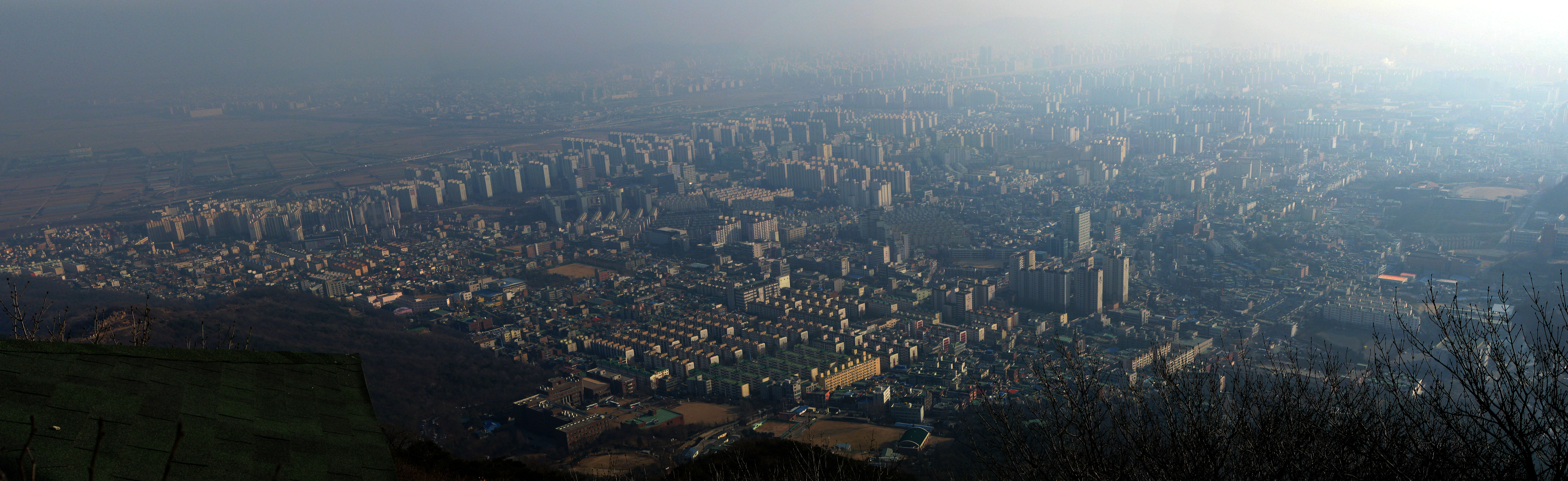 Panoramic View of Gyeyang-gu, Incheon